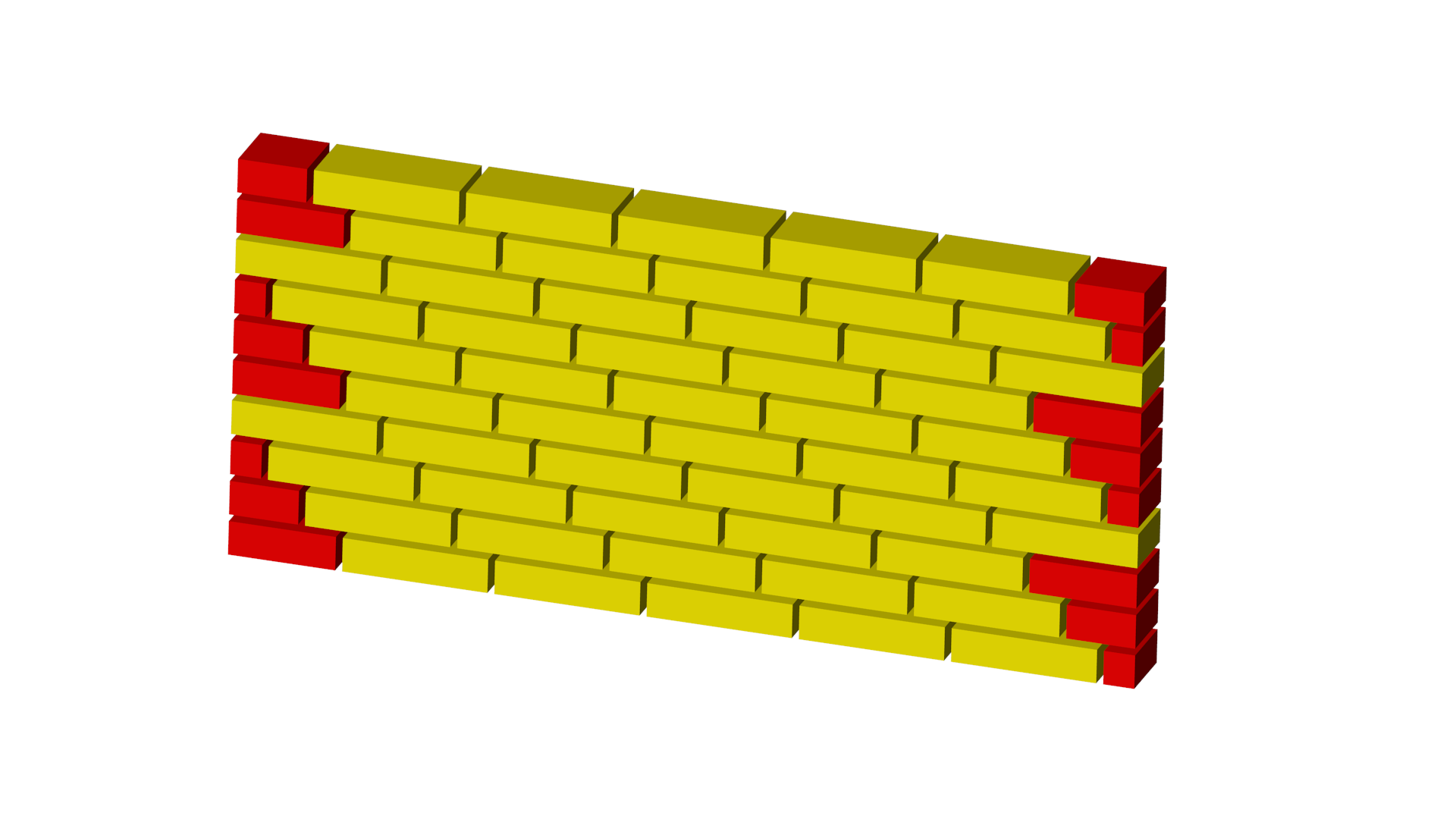 stretcher bond